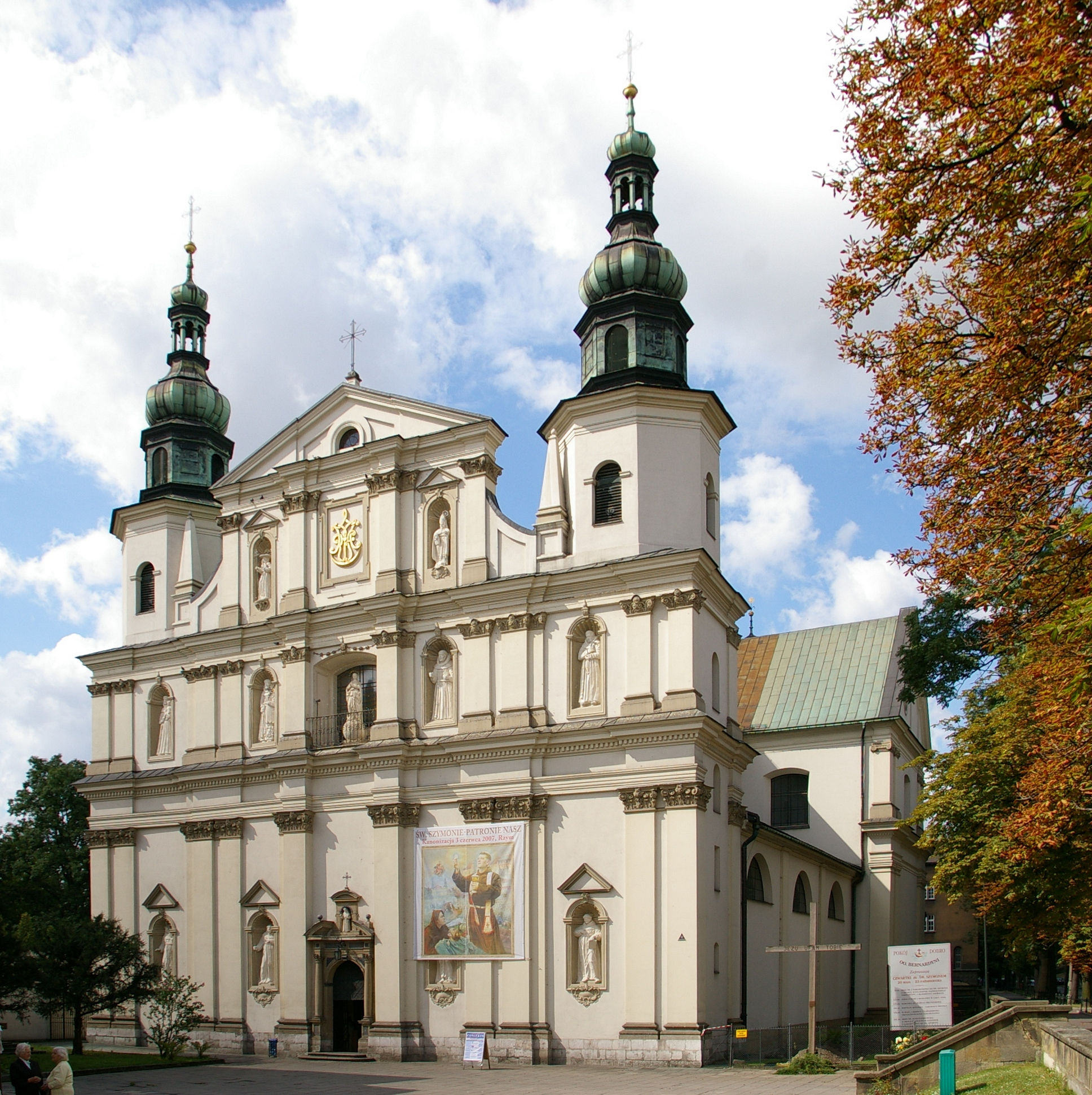 The church of Saint Bernardino in Kraków